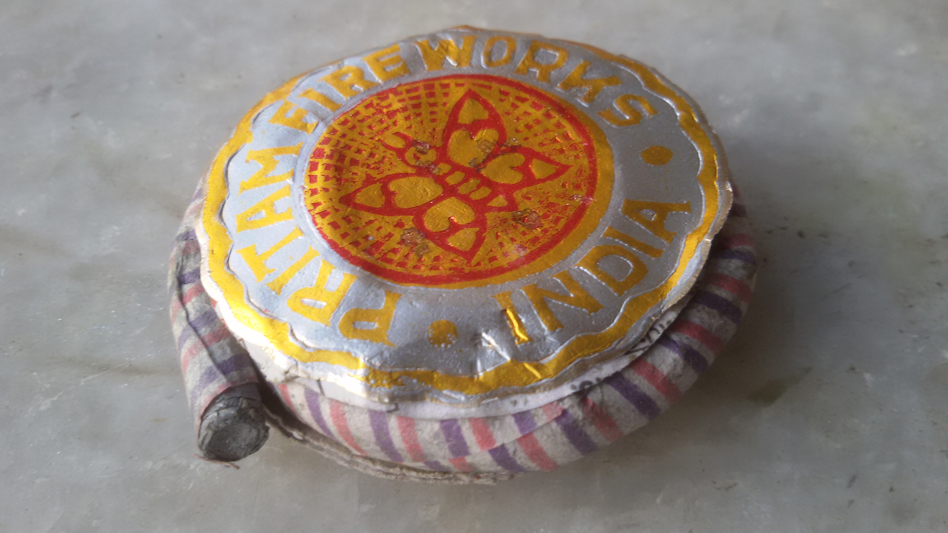 Photograph of charki, a popular firework of West Bengal.